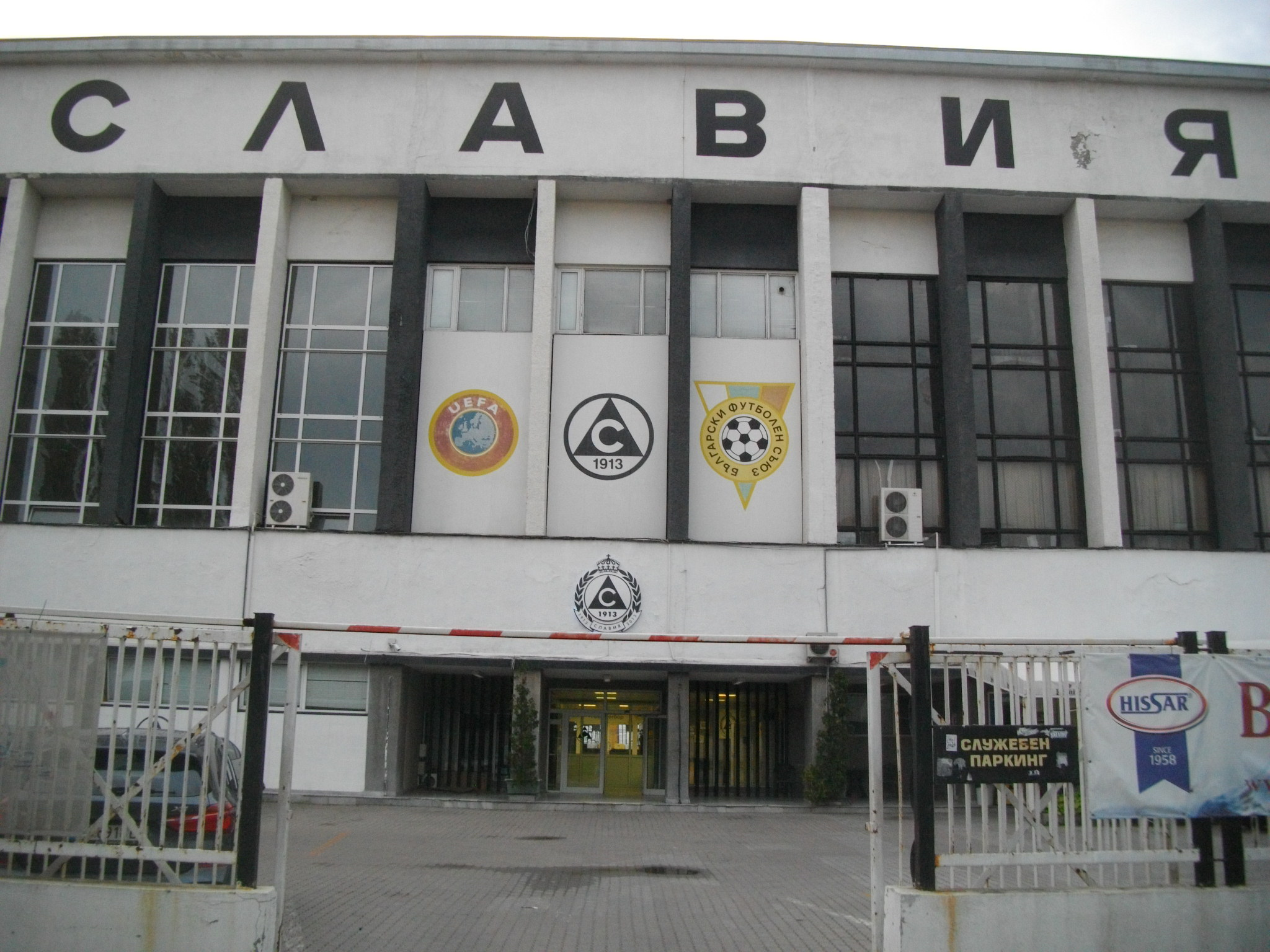 FC Slavia Sofia Stadium